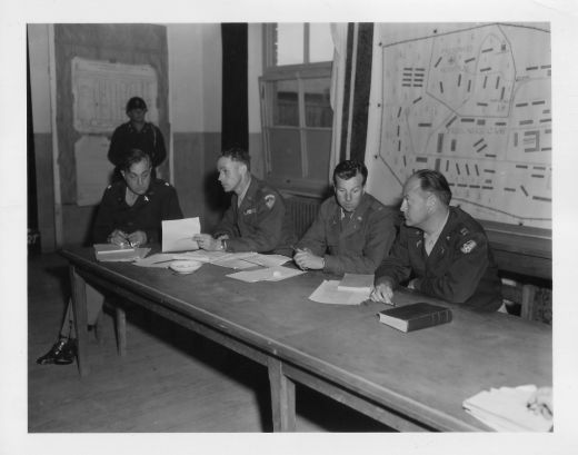 19 Sept. Left to right, are: Lt. Col. William Berman, Chief of Prosecution, and assistants: Capt. William F. McGarry, 1st Lt. William F. Jones and Capt. John F. Ryan, during war crimes trial of 19 former guards andb officials of Nordhausen (Dora) concentration camp.